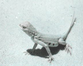 Bleached Earless Lizard in the White Sands National Monument. Note: Bleached Earless Lizard = Holbrookia maculata ruthveni